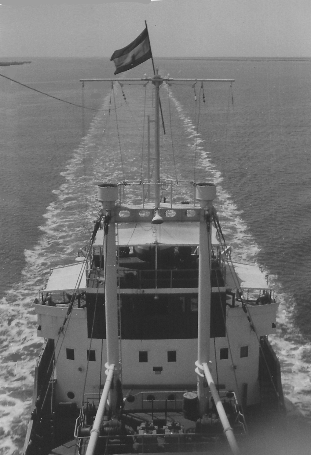 The ship holds exactly the straight course. - Motorship Elfriede on the River Saloun towards Kaolack (West Africa) - 1956